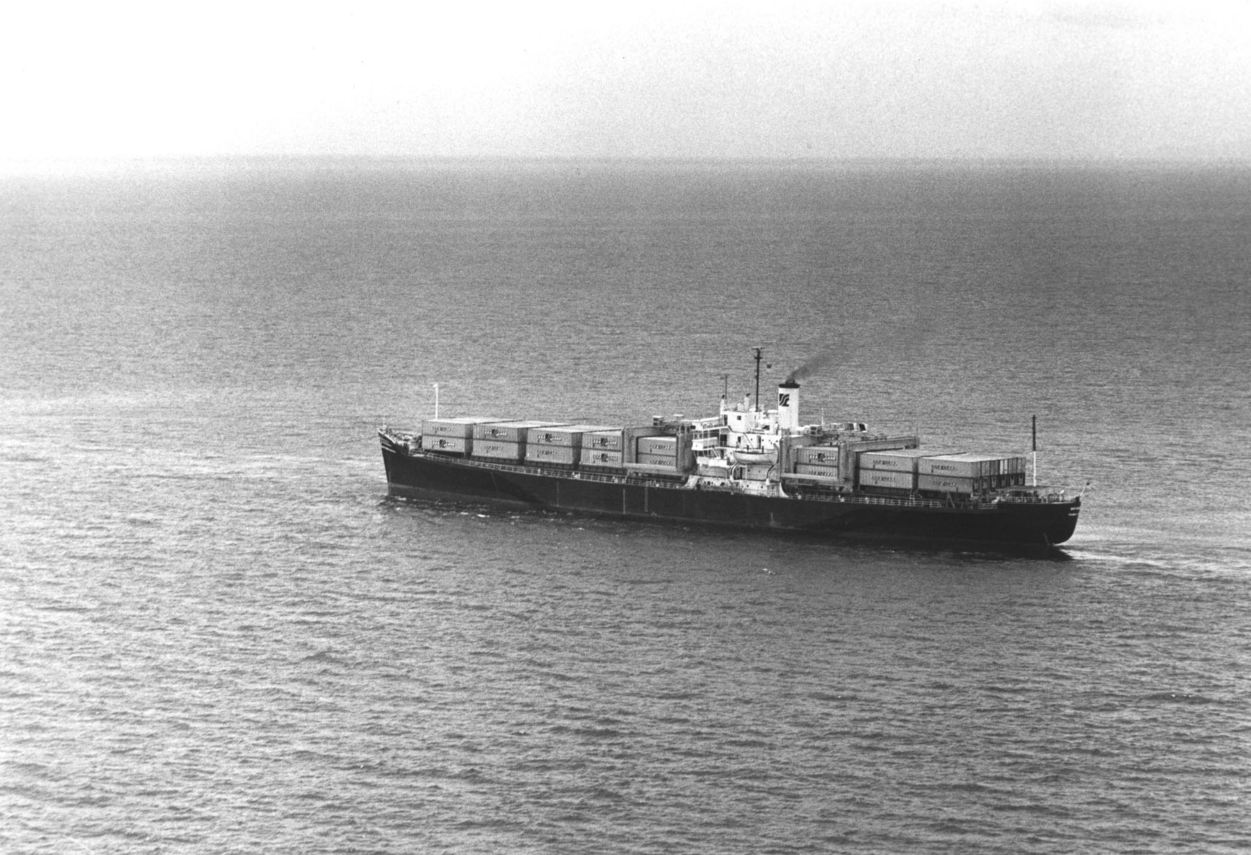 The container ship SS Mayaguez underway in 1975.